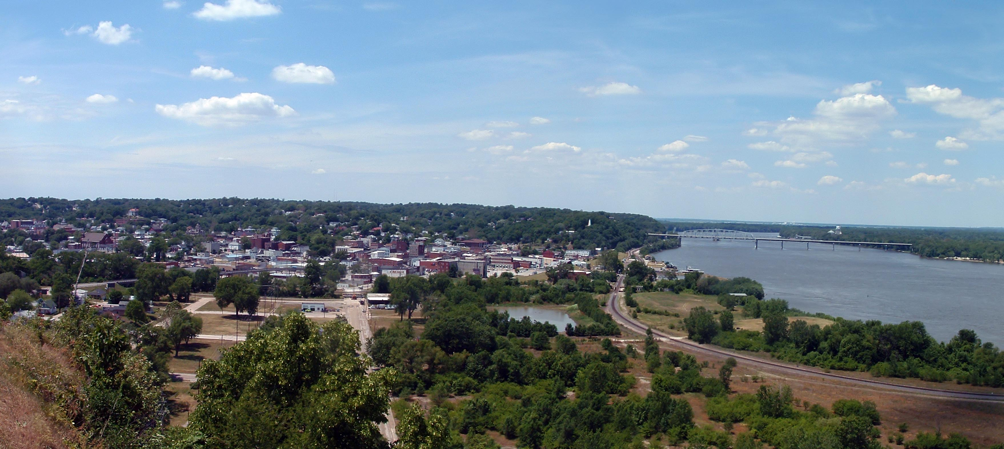 Hannibal, Missouri and the Mississippi River, as seen from "Lover's Leap" south of town.